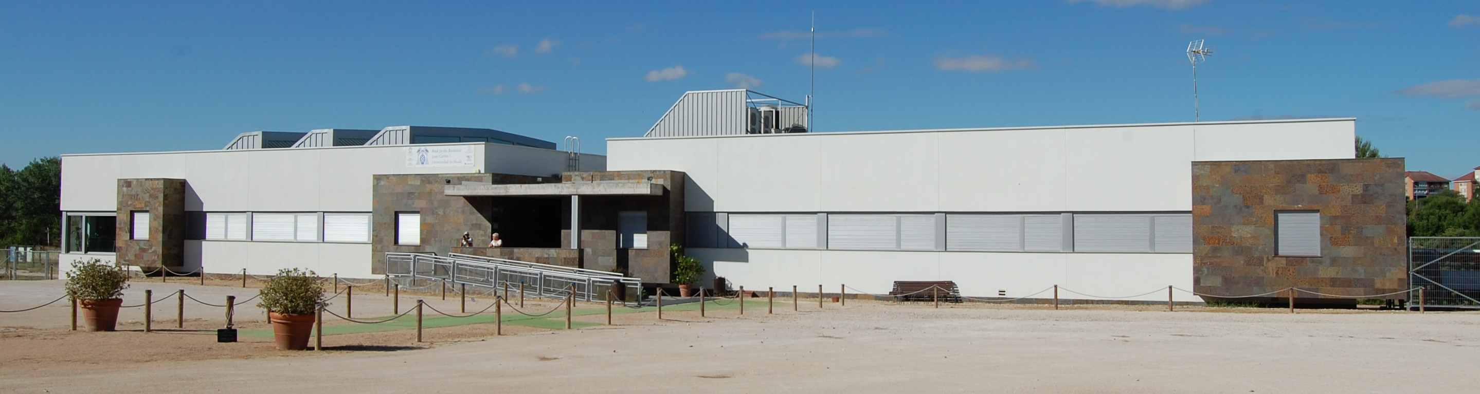 Royal Botanic Gardens, Juan Carlos I, located on the campus of Alcalá de Henares (University of Alcalá). Founded in 1990. Pavilion events and exhibitions.